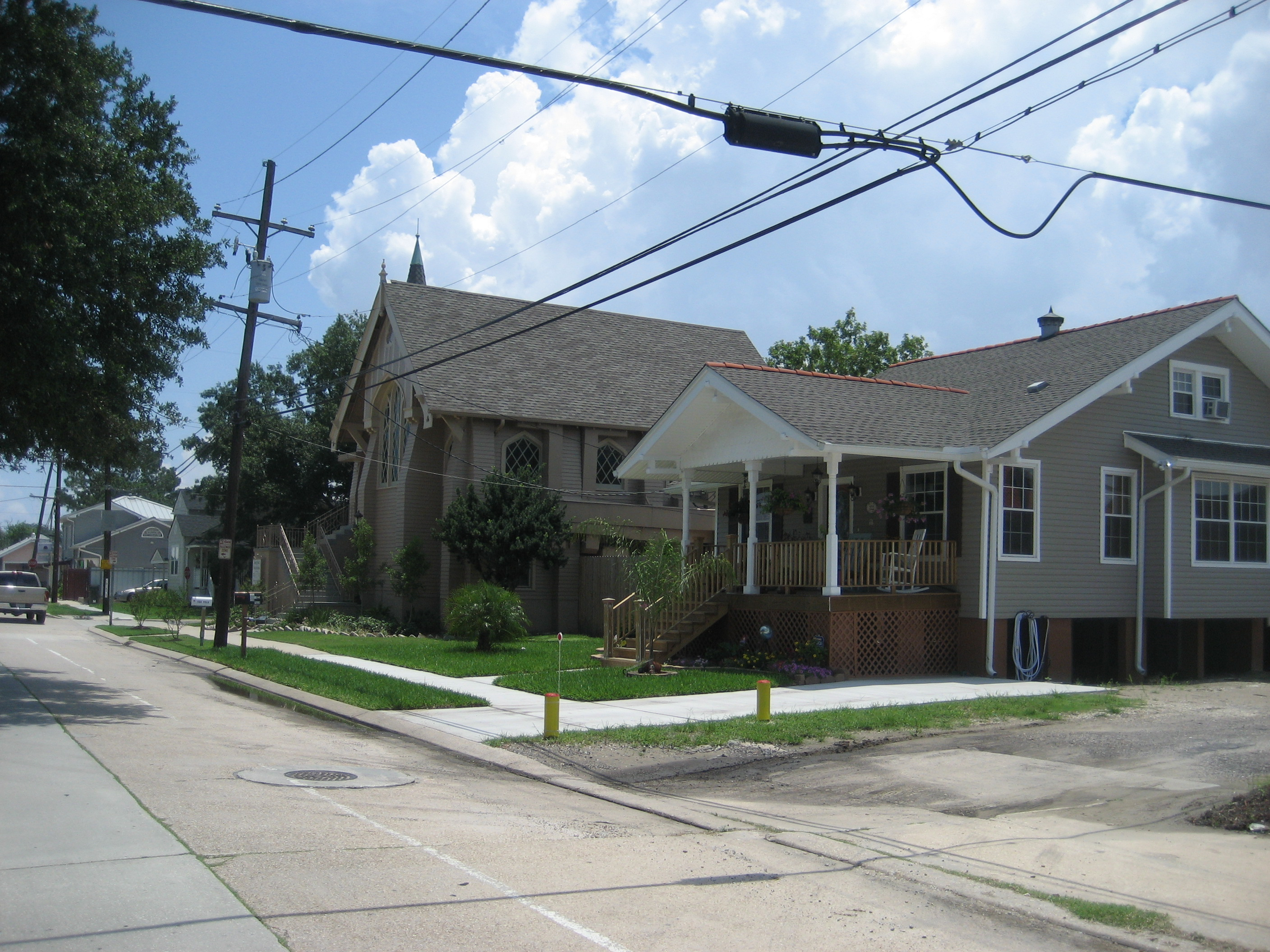 Fourth Church of Christ, Scientist, in the Lakeview section of New Orleans, Louisiana, USA. View from Polk Street.